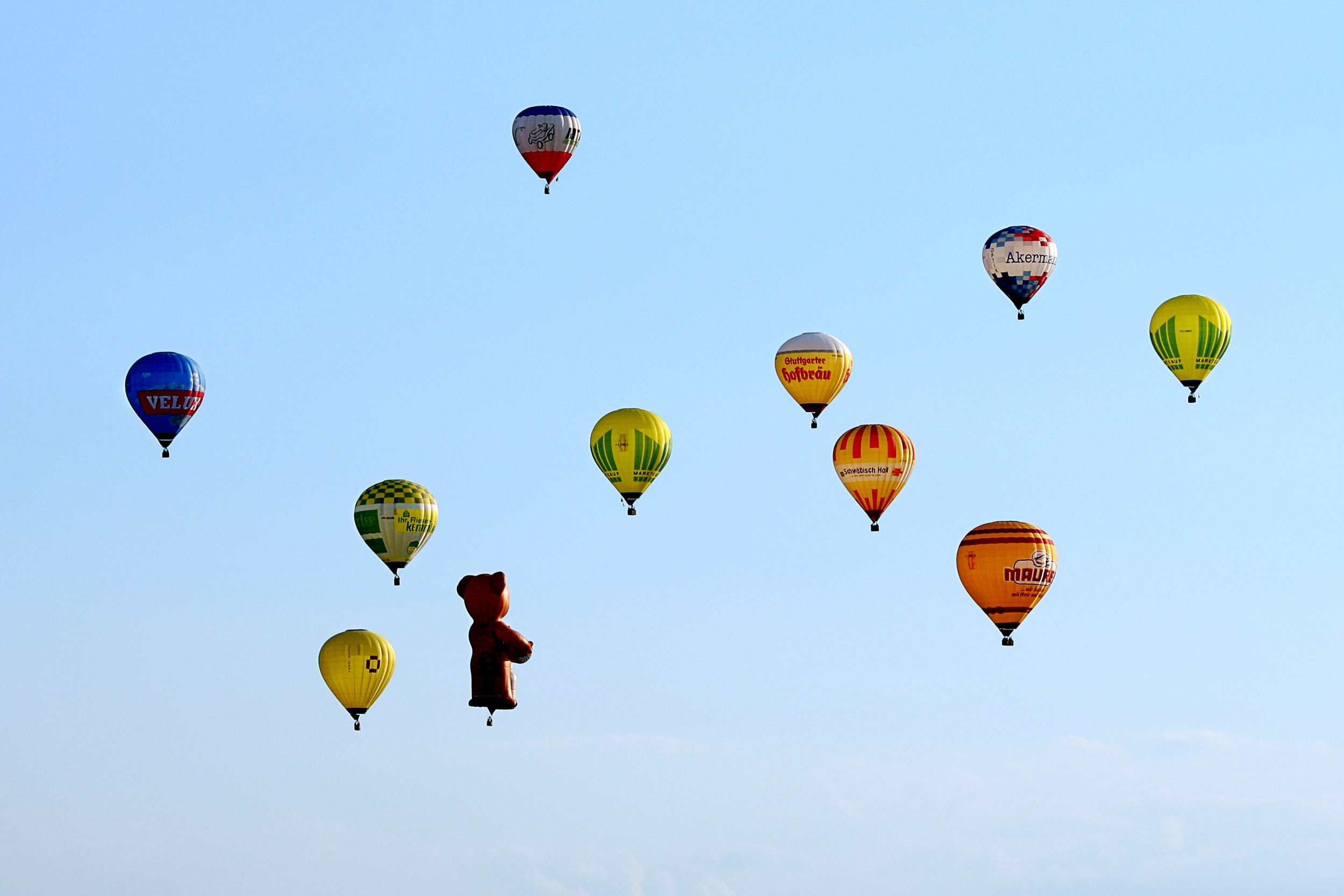 Hot-air baloons